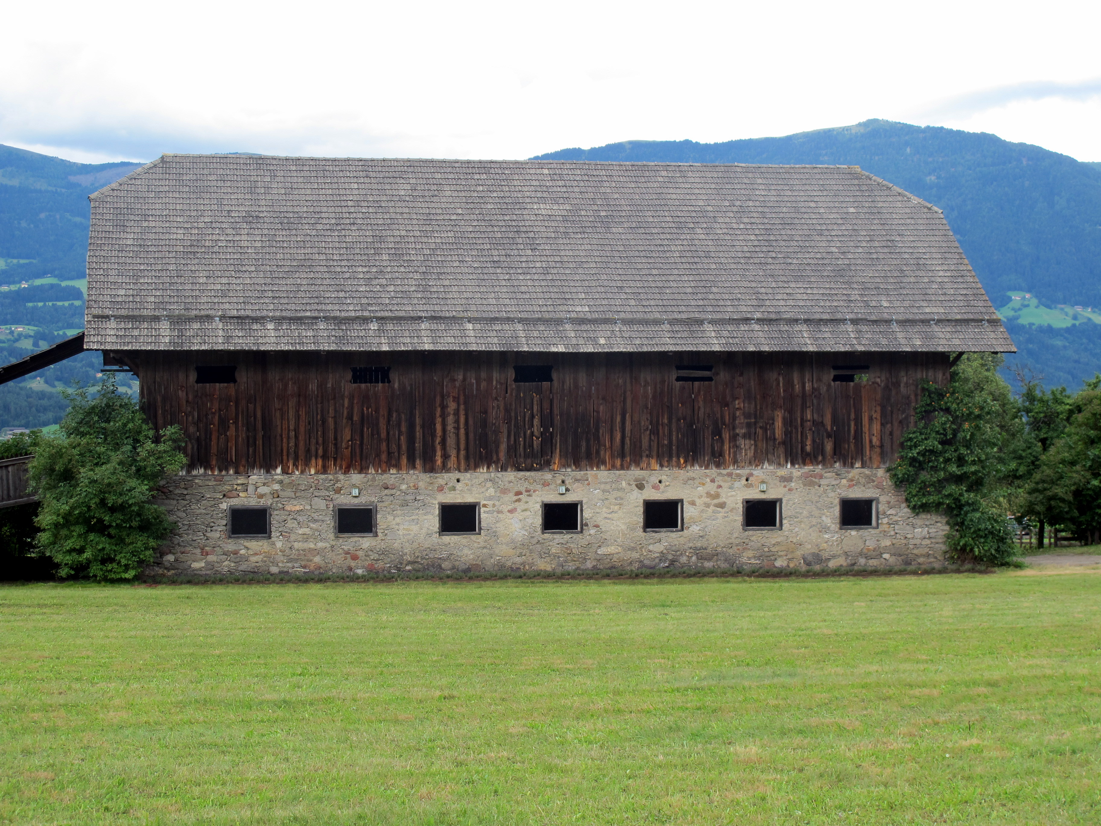 Former stables and barn of Pöllan Castle, courtyard of an administrator, in Pöllan at in Paternion around 2011, district Villach-Land in Carinthia / Austria / EU. View to the north. In the background of the eastern part of the mountain Mirnock. The upper part of the building made ​​of wood serving as a barn for hay. In the lower part was the barn for cows and horses. The building now stands empty and is no longer used.